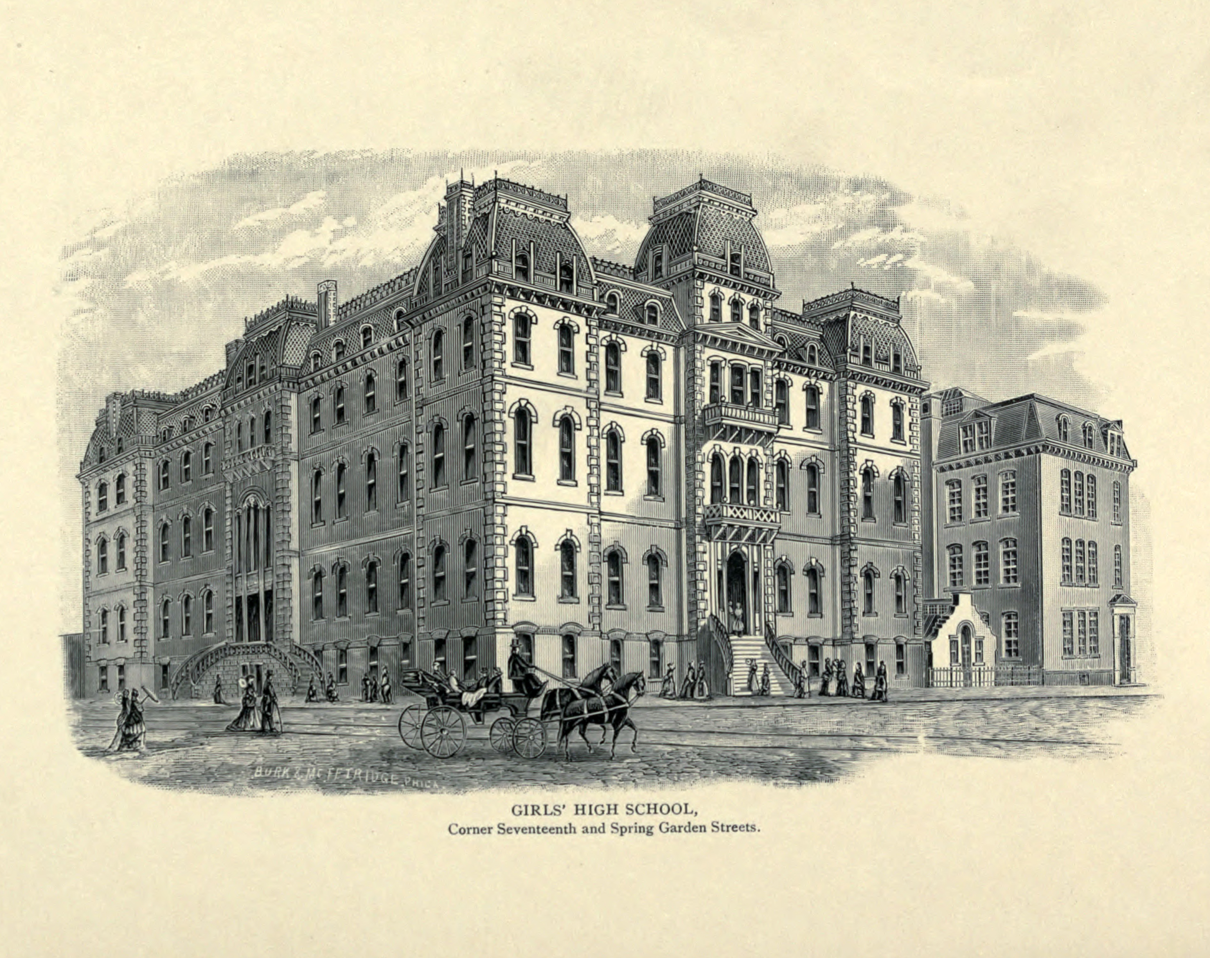 Girls' High School, Corner Seventeenth and Spring Garden Streets, Philadelphia PA (1876) From The Public Schools of Philadelphia: Historical, Biographical, Statistical by John Trevor Custis, Burk & McFetridge Co. Publisher, 1897 (